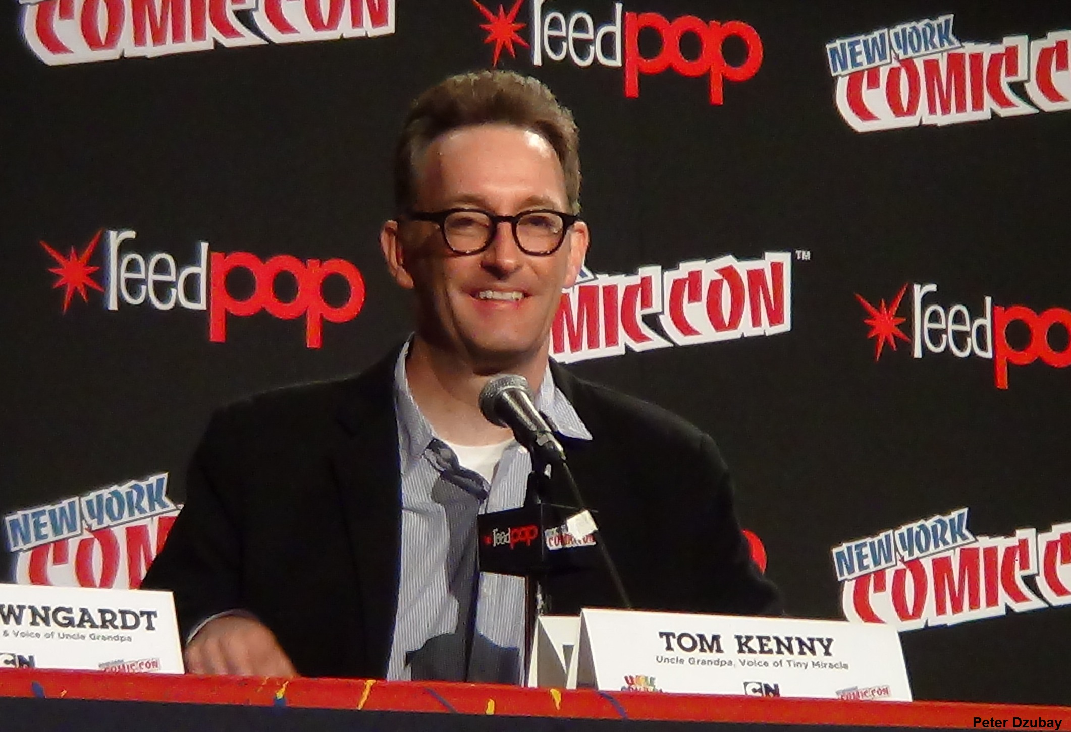 Tom Kenny at the Cartoon Network Presentsː CN Anythingǃ panel at the 2014 New York Comic Con.